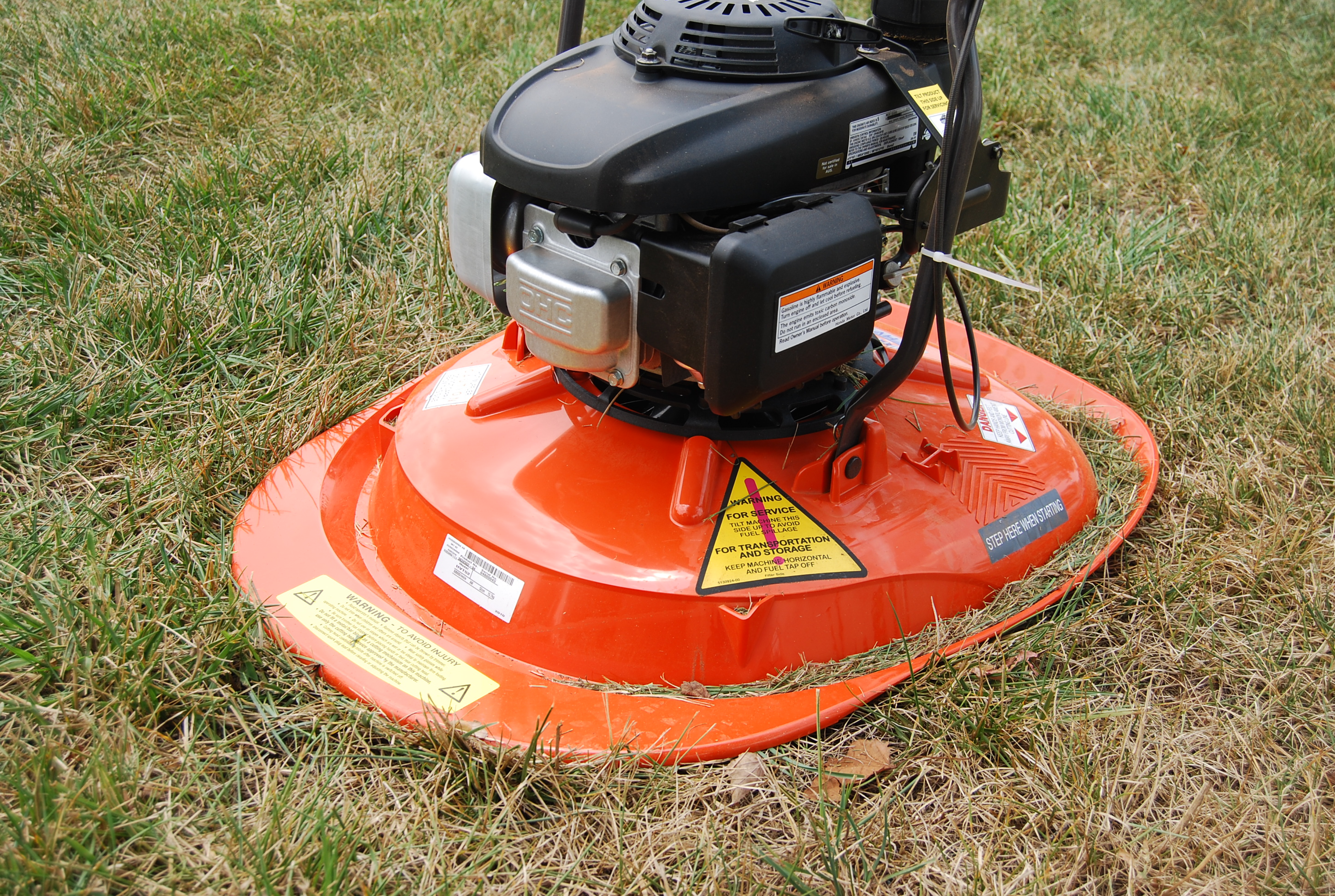 Husqvarna lawn mower – Select media were invited to test the 2011/2012 product lineup from Husqvarna Outdoor Power Equipment.